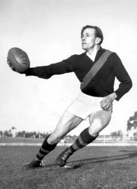 Australian footballer, Dick Reynolds.